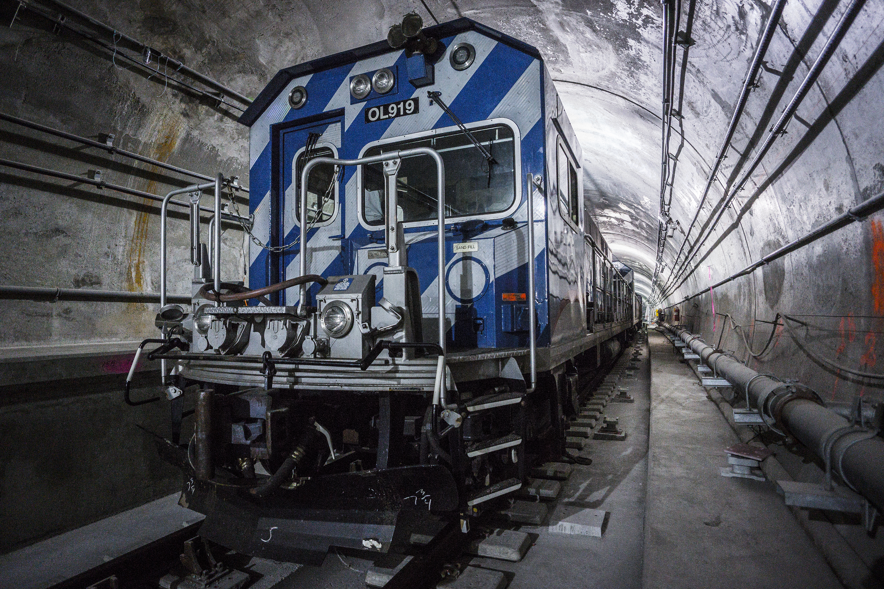 First work train rides over new tracks leading from the 63rd st station on the Second Avenue Subway Project. You can also see connection of the old track to the new track at rail joints, as well as the new track installed in addition to the rail delivery. Photo: MTA Capital Construction / Rehema Trimiew